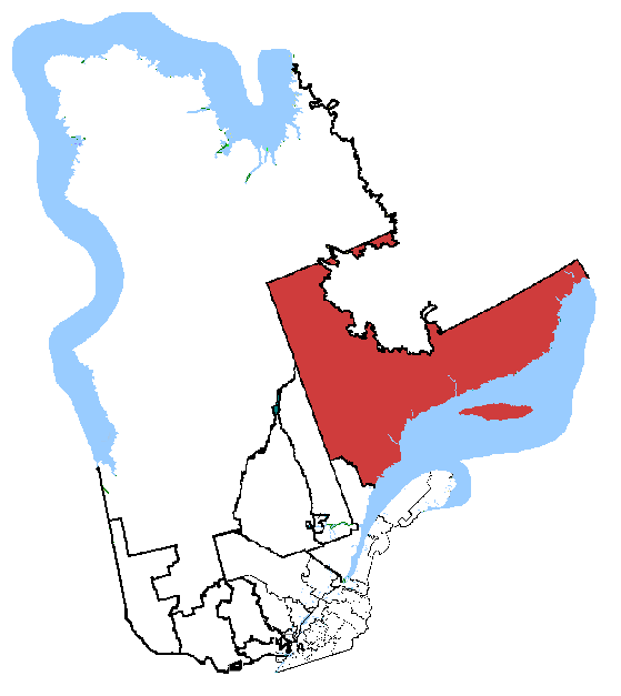 Map of the Manicouagan electoral district. Based on Earl Andrew's maps, created by SimonP.